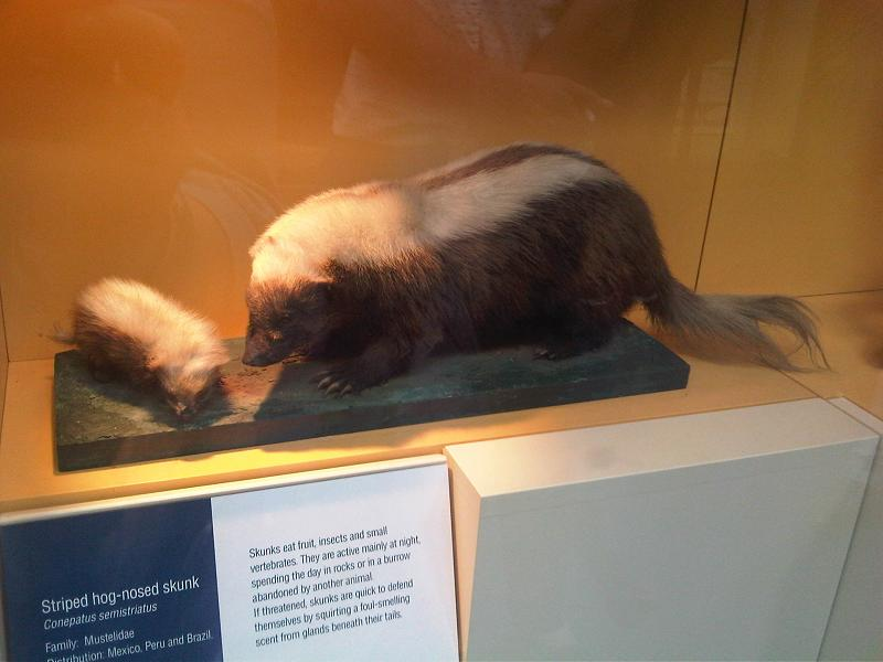 Taxidermied striped hog-nosed skunks (Conepatus semistriatus) at the Natural History Museum in London, England.